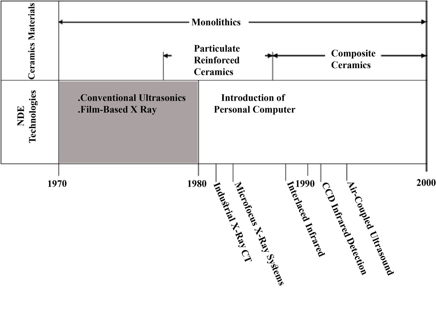 historical perspective on NDT technology development for structural ceramics